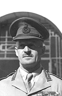 Depicted person: Gordon Bennett – Australian Army officer